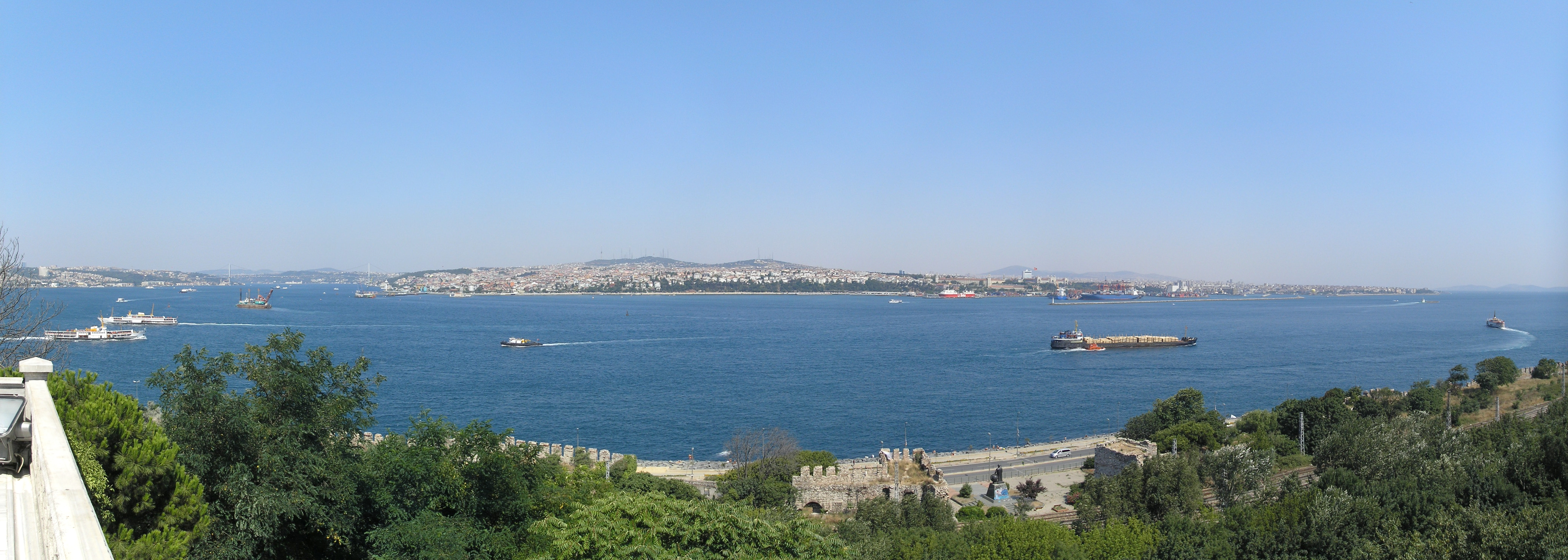 View of the Bosphorus, as seen from the terrace of the fourth court of the Topkapi Palace, Istanbul. Visible on the other side is Asia.